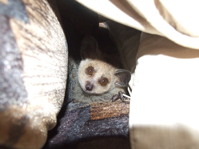 juvenile (approx. 4 months) Grant's Bushbaby (Galago granti)